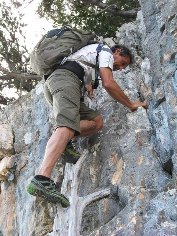 A pictures of Marcello Cominetti while climbing